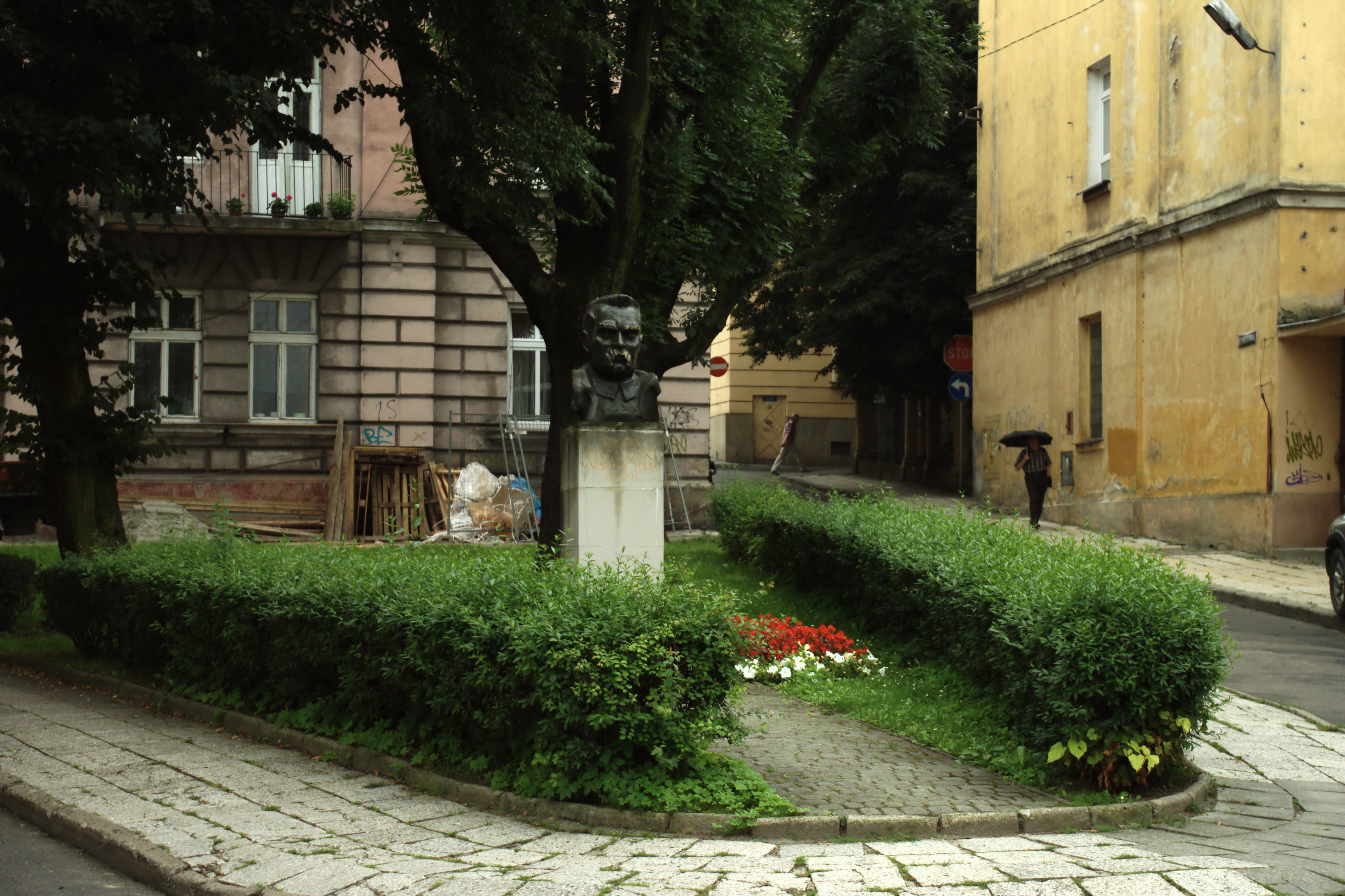 Józef Piłsudsky memorial in the very center of Przemyśl, Podkarpackie Voivodeship, Poland